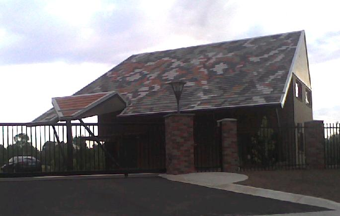 Embassy of Timor Leste in Canberra